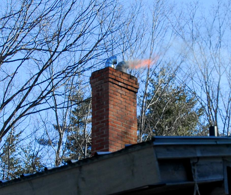 Photo by permission: Allan McLane, Captain, Marlboro Vermont Volunteer Fire Company, created 03/24/07 --Surryroger 16:22, 6 April 2007 (UTC)